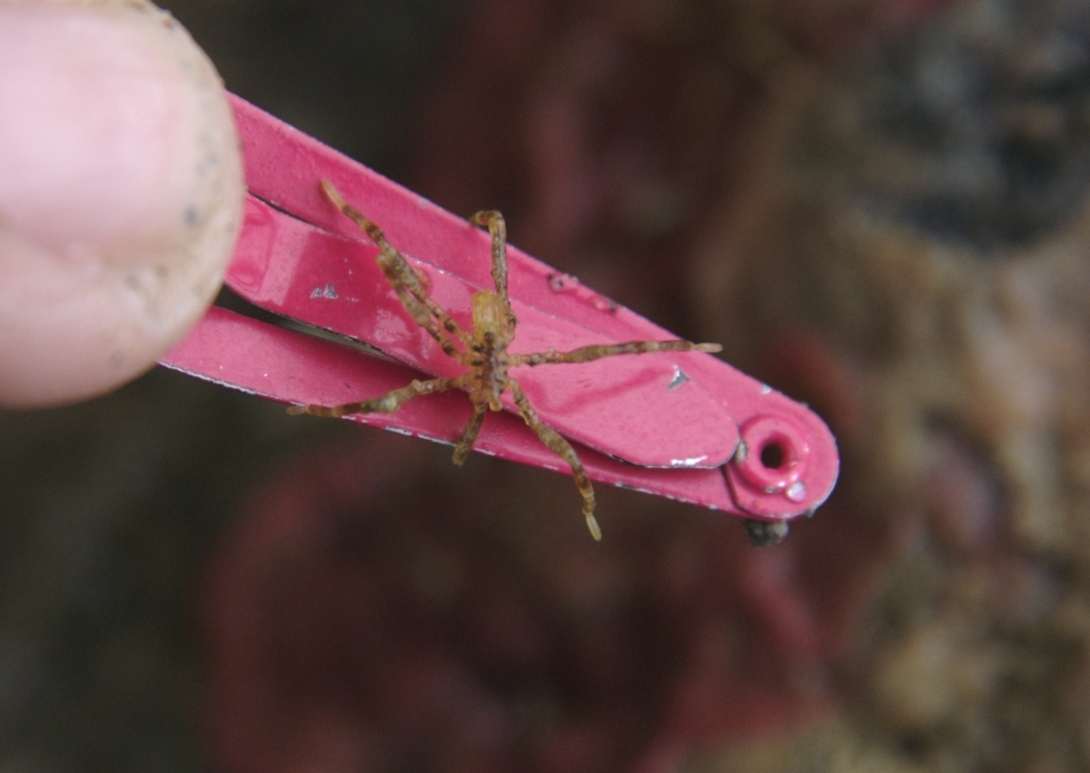 A sea spider, Pycnogonida Date16 March 2007Sourceoriginally uploaded to Flickr as Sea SpiderAuthorjkirkhart35Permission (Reusing this file) CC-BY Licensing